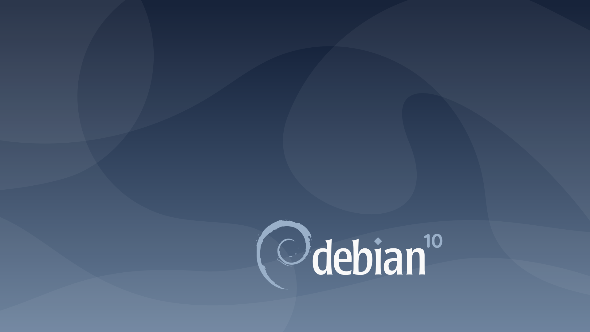 default wallpaper debian 10